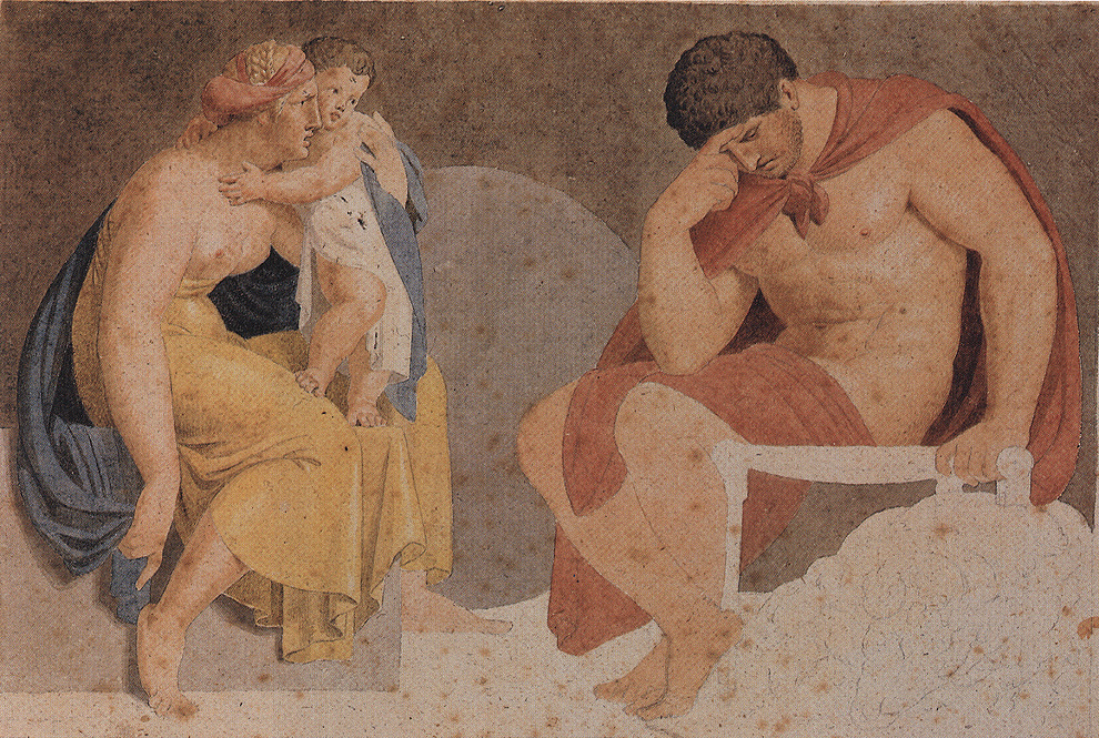 Asmus Jakob Carstens, Sorrowful Ajax with Termessa and Eurysakes, um 1791. Water color over graphite, 22.7 x 33.6 cm, Weimar, Kunstsammlungen.